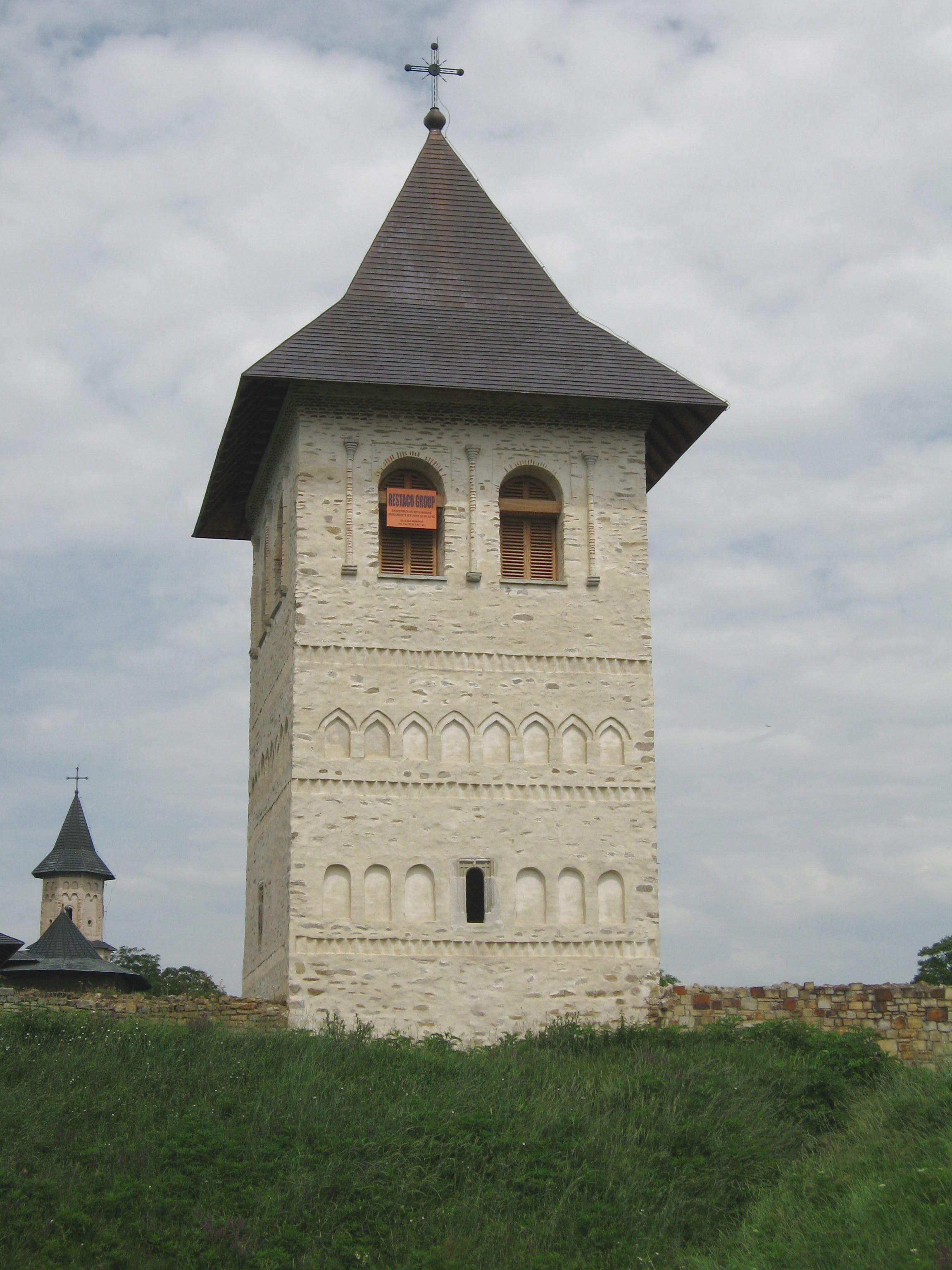 Zamca Monastery in Suceava - the bell tower.